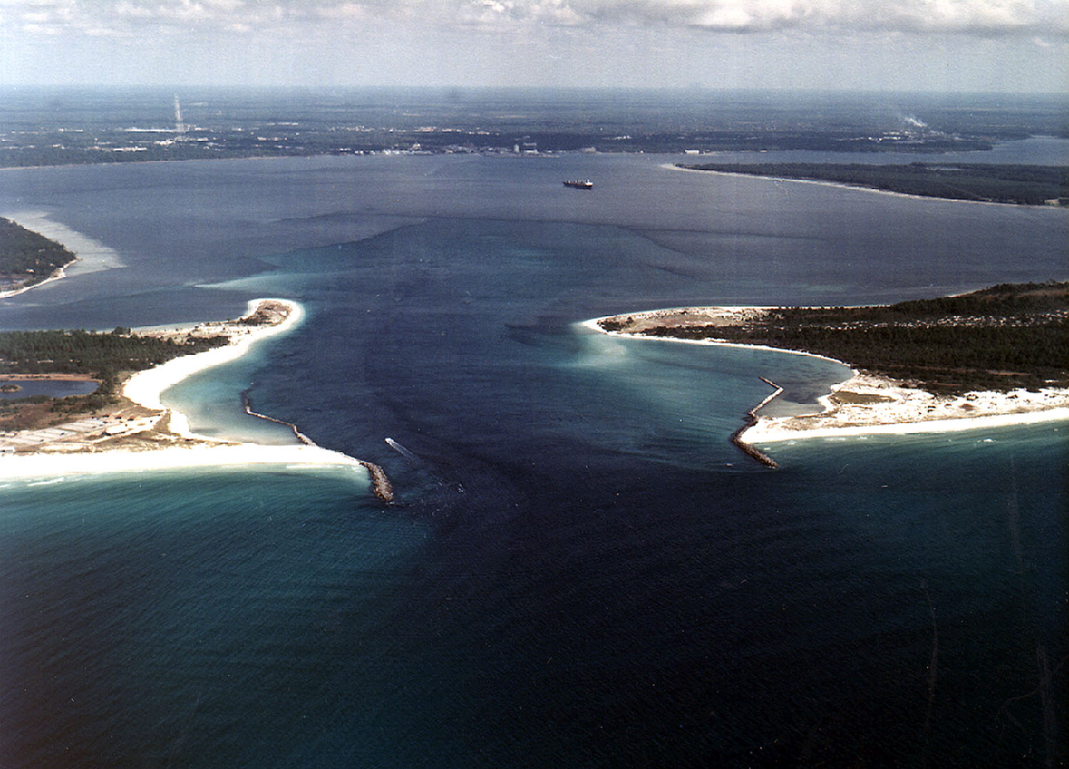 Aerial view of St. Andrews Bay and the harbor entrance on the Gulf of Mexico at Panama City, Florida, USA. View is to the east-northeast from over the Gulf. Coordinates: 30°7′20.15″N 85°43′45.87″W / 30.1222639°N 85.7294083°W